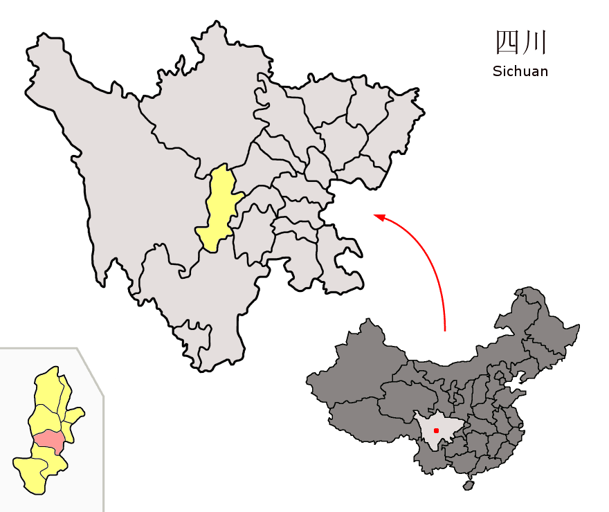 Location of Yingjing County (pink) and Ya'an Prefecture (yellow) within Sichuan province of China Map drawn in october 2007 using various sources, mainly : Sichuan province administrative regions GIS data: 1:1M, County level, 1990 Sichuan Counties map from